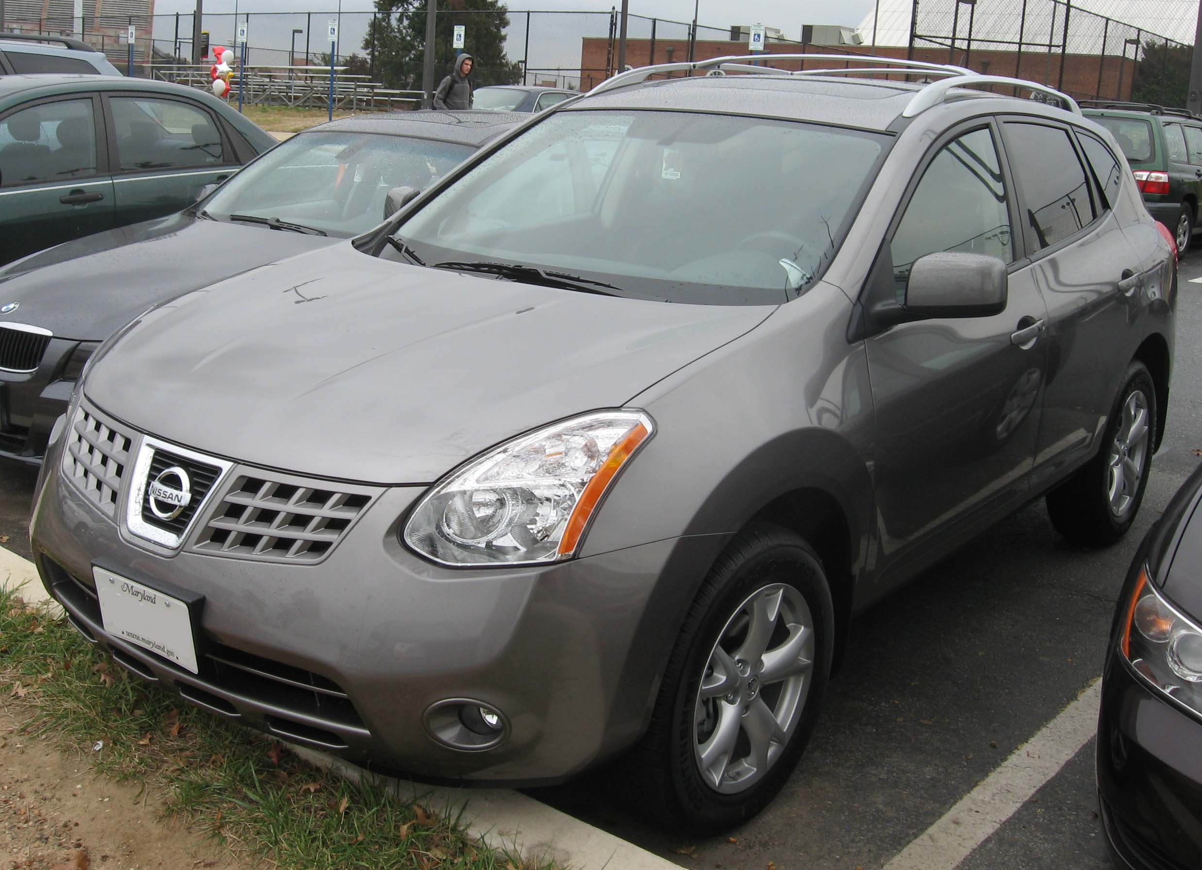 2008 Nissan Rogue photographed in College Park, Maryland, USA.